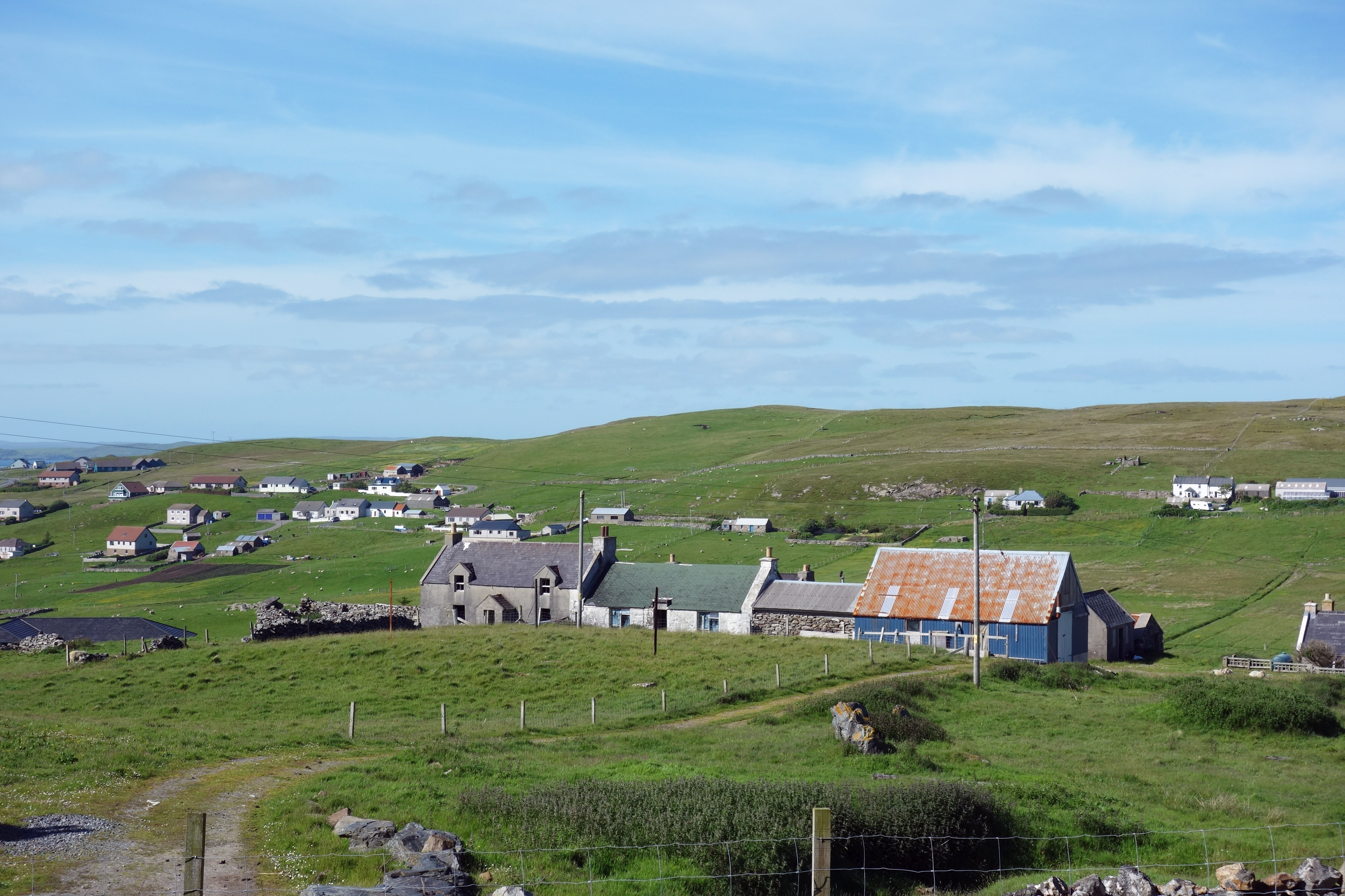 View at Symbister